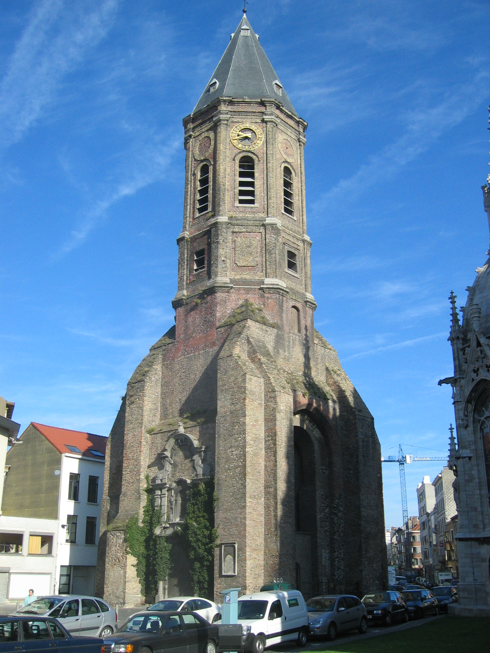 the 'Peperbusse', remains of the burnt-down church St-Pieterskerk in 1896; Oostende, Belgium.